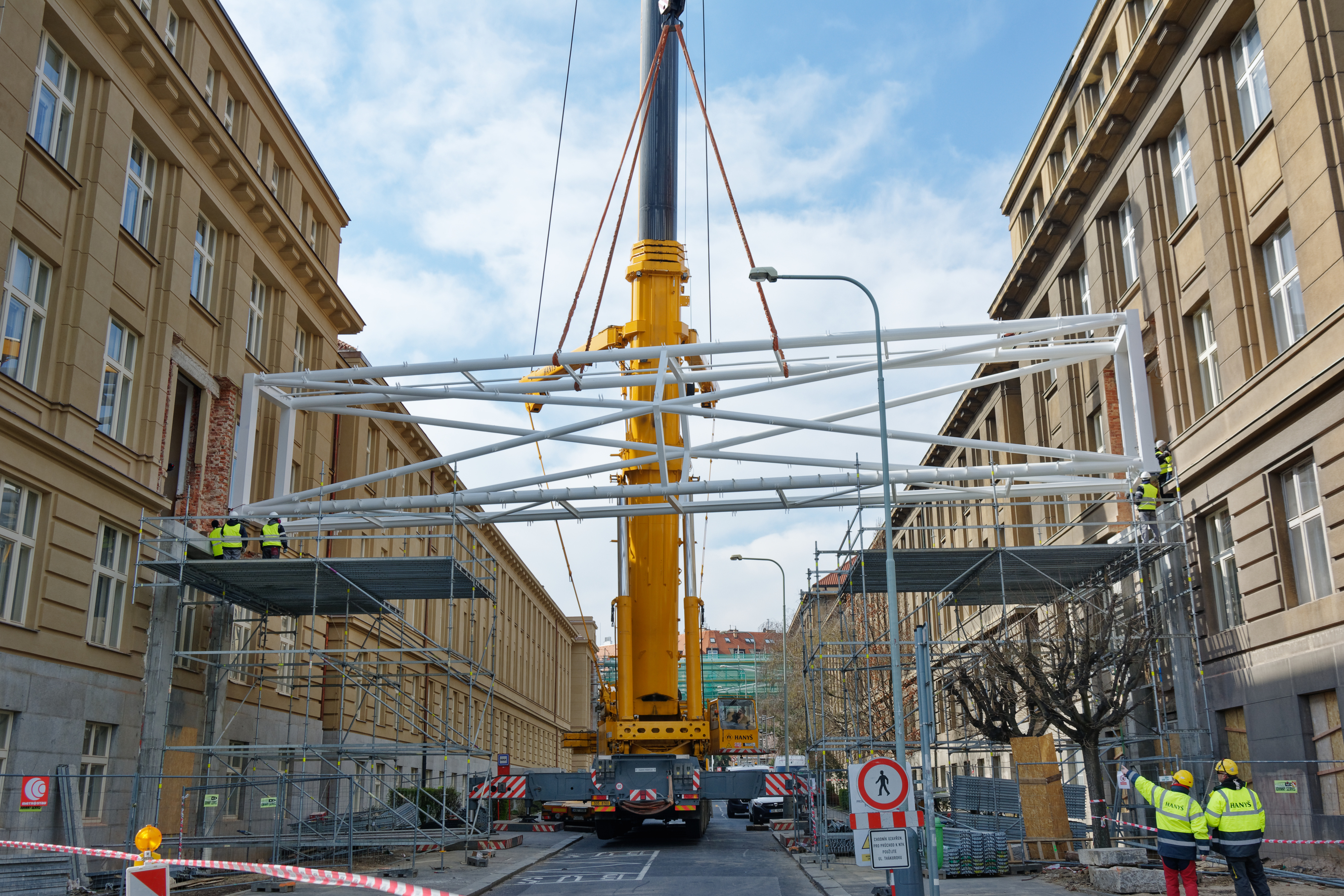 University of Chemistry and Technology, Prague, Interconnection of buildings A and B by two bridges.